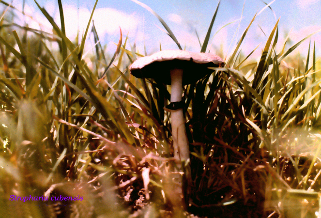 mushroom of large frequency in America with use consecrated in the Aztec etnomédic system